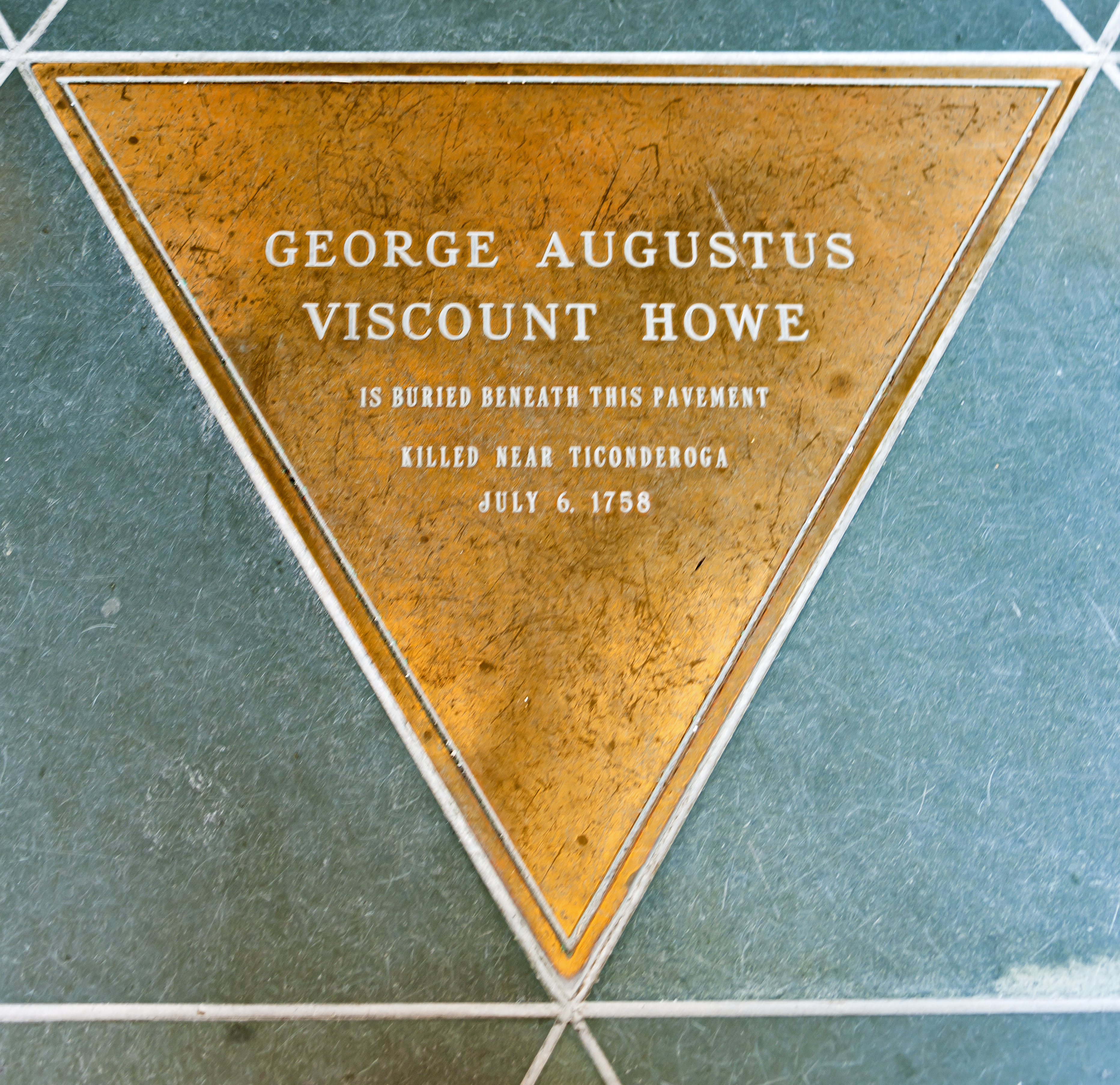 Burial marker of George Howe, 3rd Viscount Howe in the floor of the vestibule at St. Peter's Episcopal Church Albany, NY, USA. Although there is some doubt as to whether he is actually buried beneath, it is the only monument to the final resting place of a British peer in the United States.